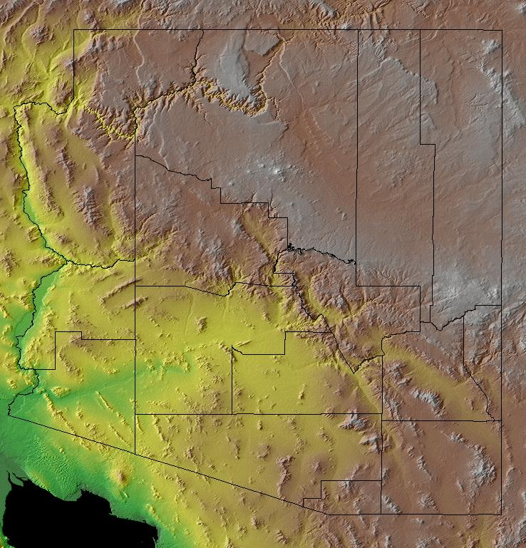 State Topography Image: Arizona . Showing drainage topography of those tributaries of the Colorado River with watersheds in Arizona. Parker Valley is the ~north/south green area along the Colorado River, on the map's far left. Credits Image came from [1] Image size 550 x 573px Disksize 138KB is a known public domain image resources